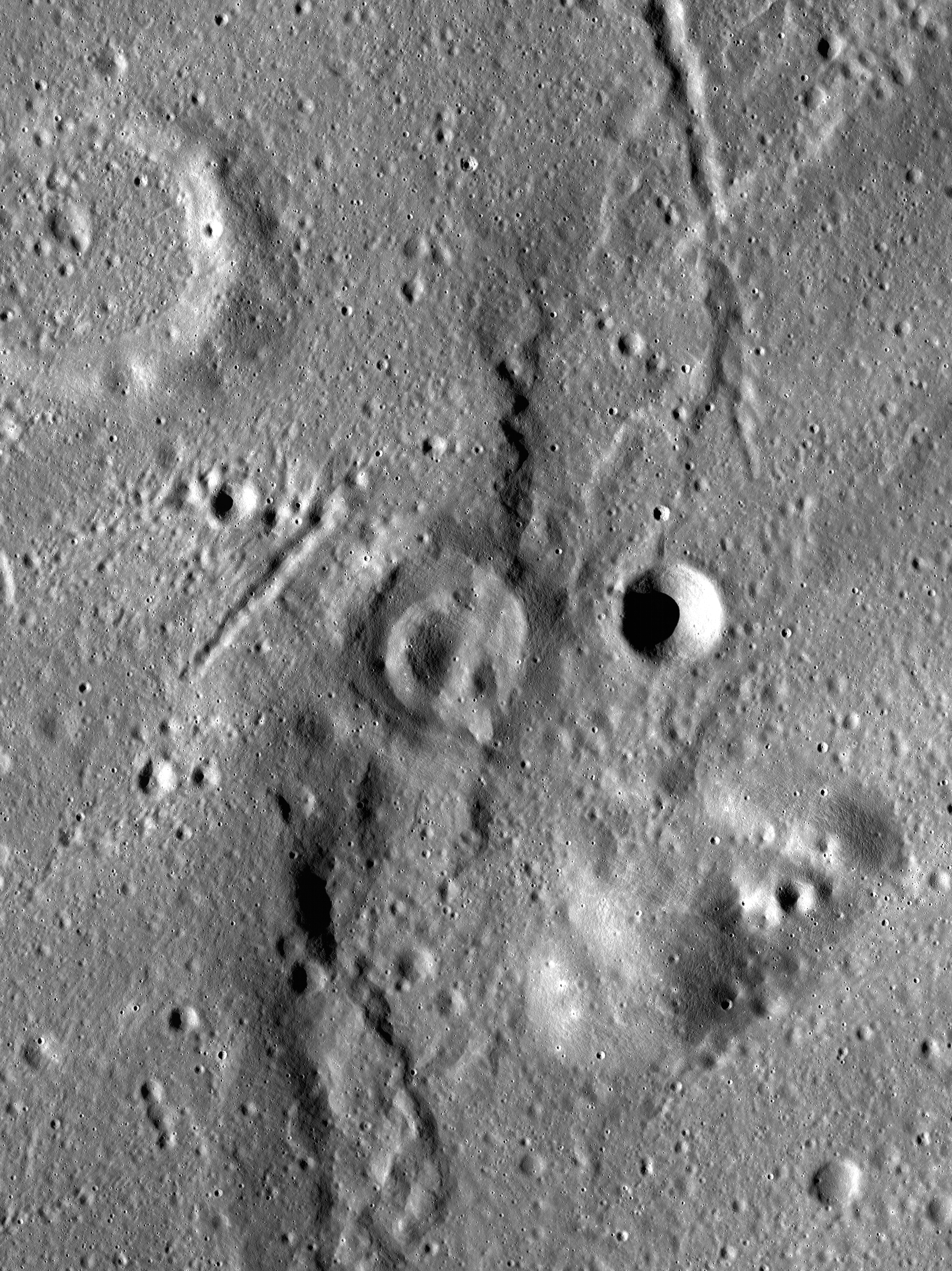 Part of wrinkle ridge Dorsum Oppel on the Moon, in northwestern Mare Crisium, near crater Swift (a map). An unnamed concentric crater with diameter 3 km is seen in the center. Image by Lunar Reconnaissance Orbiter, made with Narrow Angle Camera on 10 January 2012 from altitude 131 km. Sun elevation is 18.5°. Size of the photo is 13.3×17.8 km, north is approximately up (to make it precisely on the top, the image must be rotated 1.5° cw).